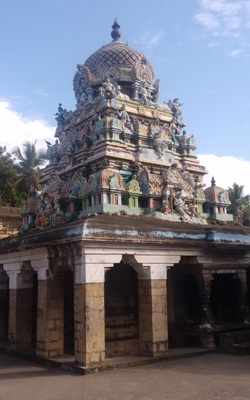 Tirumangalakudi prananatheswarar temple திருமங்கலக்குடி பிராணநாதேஸ்வரர் கோயில்